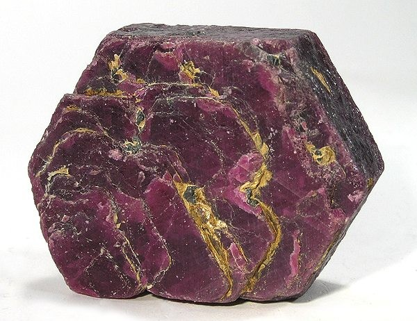 Corundum Locality: Mysore District, Karnataka, India (Locality at ) Not a gem crystal, of course, but this IS technically a ruby (red corundum) that is really huge for having such a sharp euhedral form! It is complete all around and on both sides - just a REALLY impressive corundum crystal! Weighs 259 grams! 7.8 x 5.3 x 2.8cm